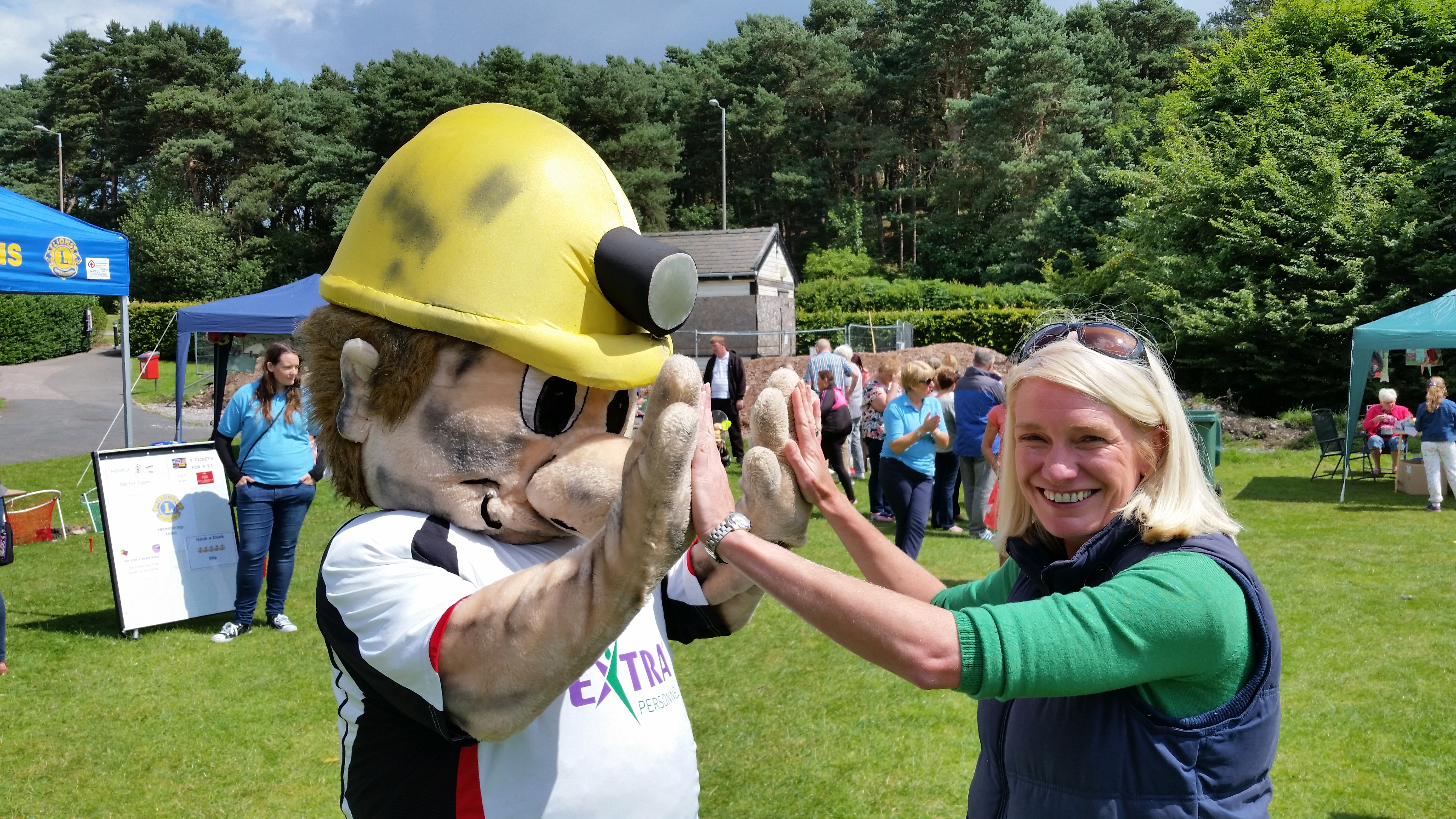 Amanda Milling MP with the Hednesford Town Football Club mascot.